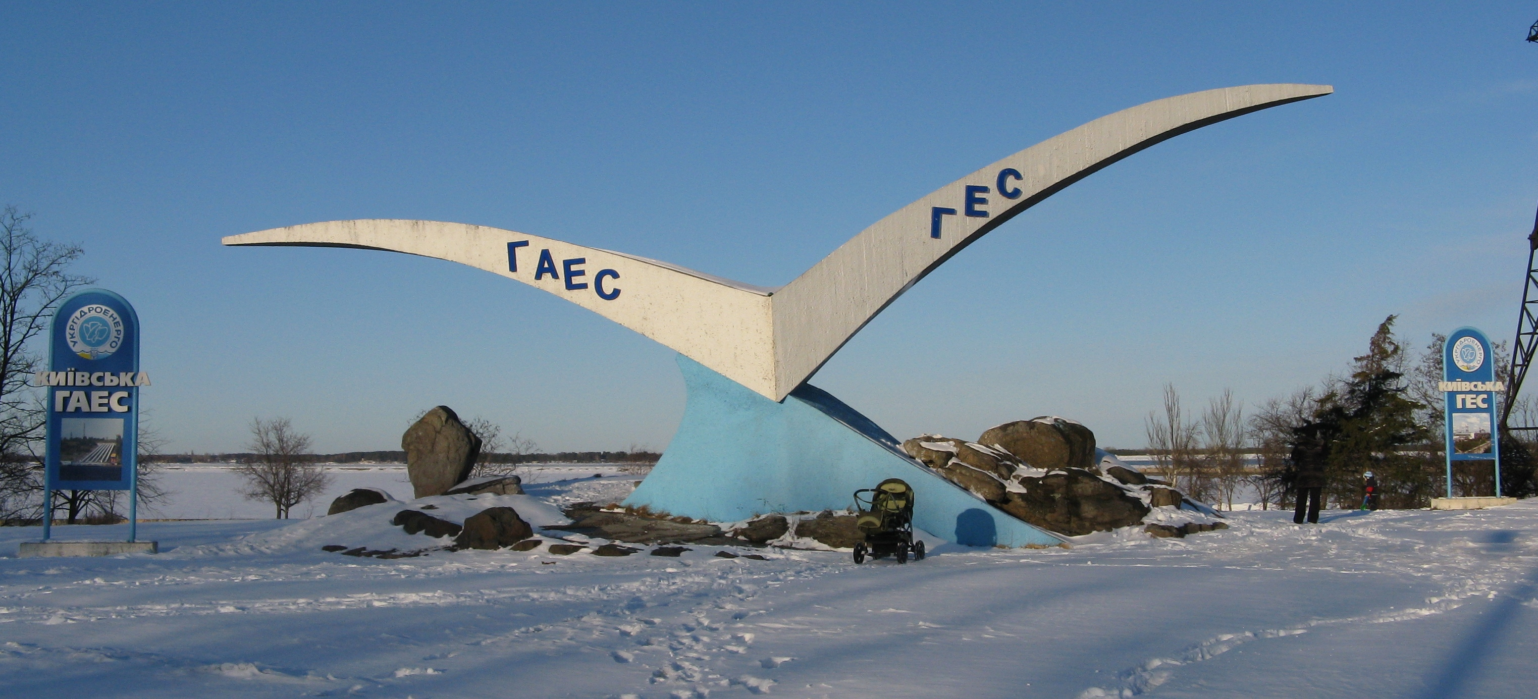 The sign at the entrance to the dam of the Kiev HES